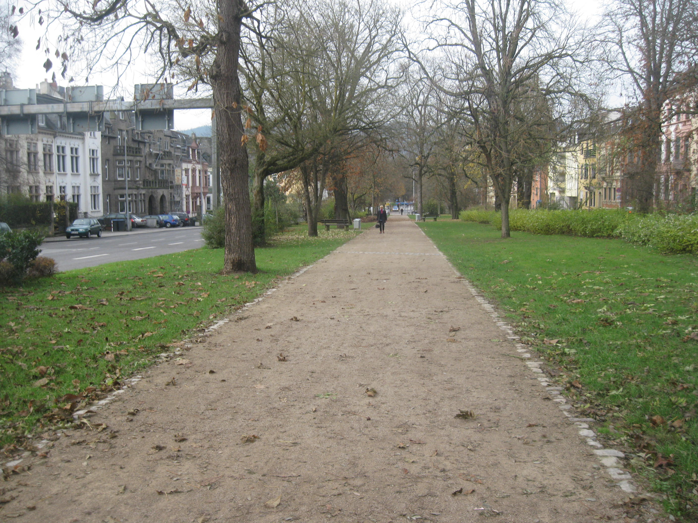 Park in the Middle between Kaiserstraße (Emperor Street) and Südallee (Southern Avenue) in Trier/Treves